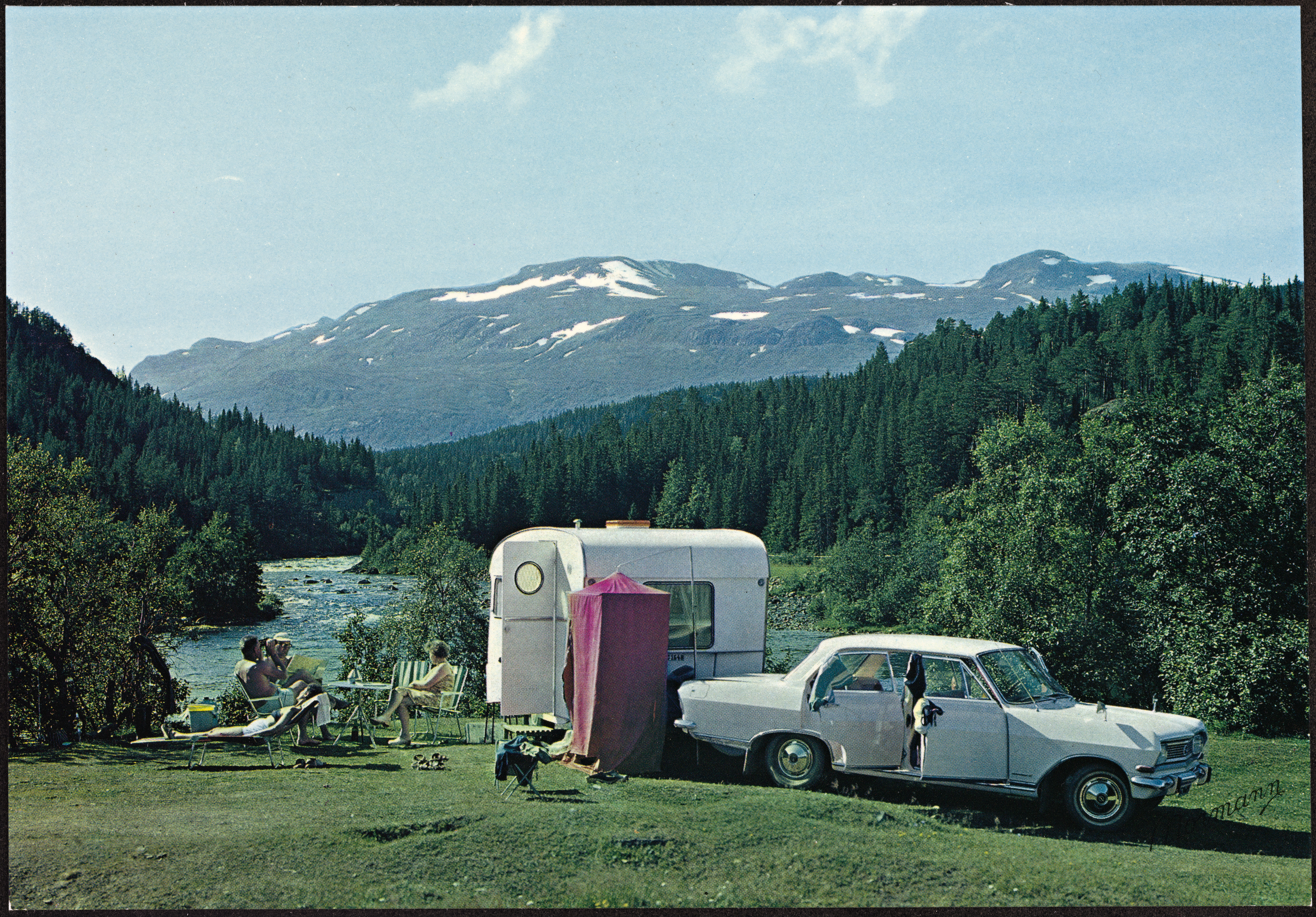 Beskrivelse / Description: Postkort / postcard. Dato / Date: ca 1970 Sted / Place: Oppland, Vang Fotograf / Photographer: Normann Utgiver / Publisher: Normanns kunstforlag AS Digital kopi av original / Digital copy of original: trykt postkort, farge Eier / Owner Institution: Nasjonalbiblioteket / National Library of Norway Lenke / Link: Bildesignatur / Image Number: blds_05931